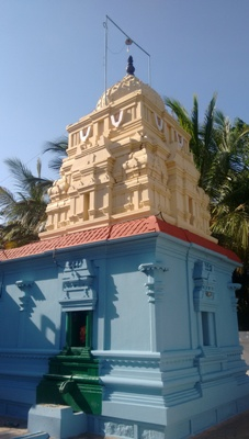 Thanjavurkothandaramartemple தஞ்சாவூர்கோதண்டராமர்கோயில்